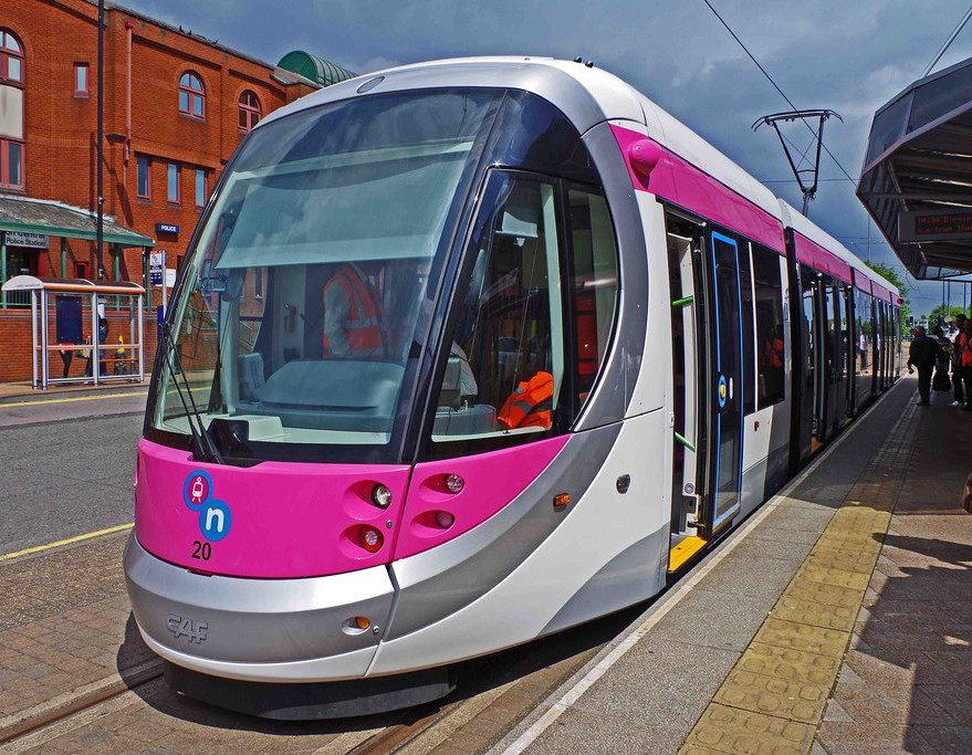 The tram, one of an initial fleet of twenty CAF Urbos 3 trams (nos. 17-36), was on display to the public for a few hours at the St. Georges tram stop.